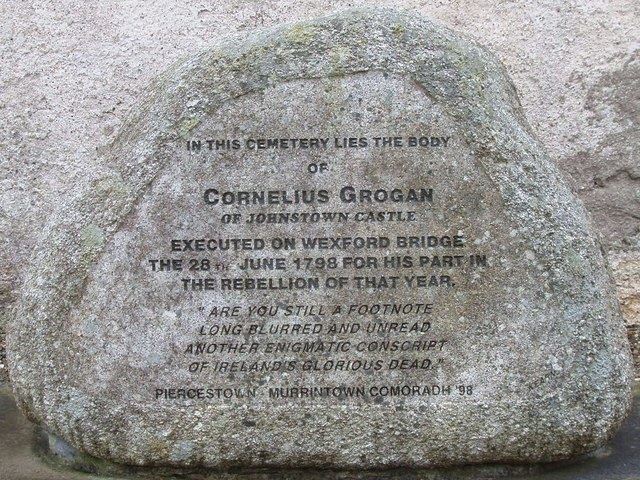 Cornelius Grogan 1798 memorial at Redmondstown church The churchyard of Redmondstown church, Rathaspick, contains this memorial to the protestant Cornelius Grogan of Johnstown Castle, executed on Wexford bridge in 1798, whose body is in the graveyard. He was a Wexford area commander in the 1798 rebellion, and the memorial was unveiled in 1998.